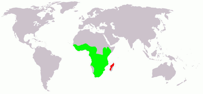 Green (vert) : Actophilornis africanus Red (rouge) : Actophilornis albinucha